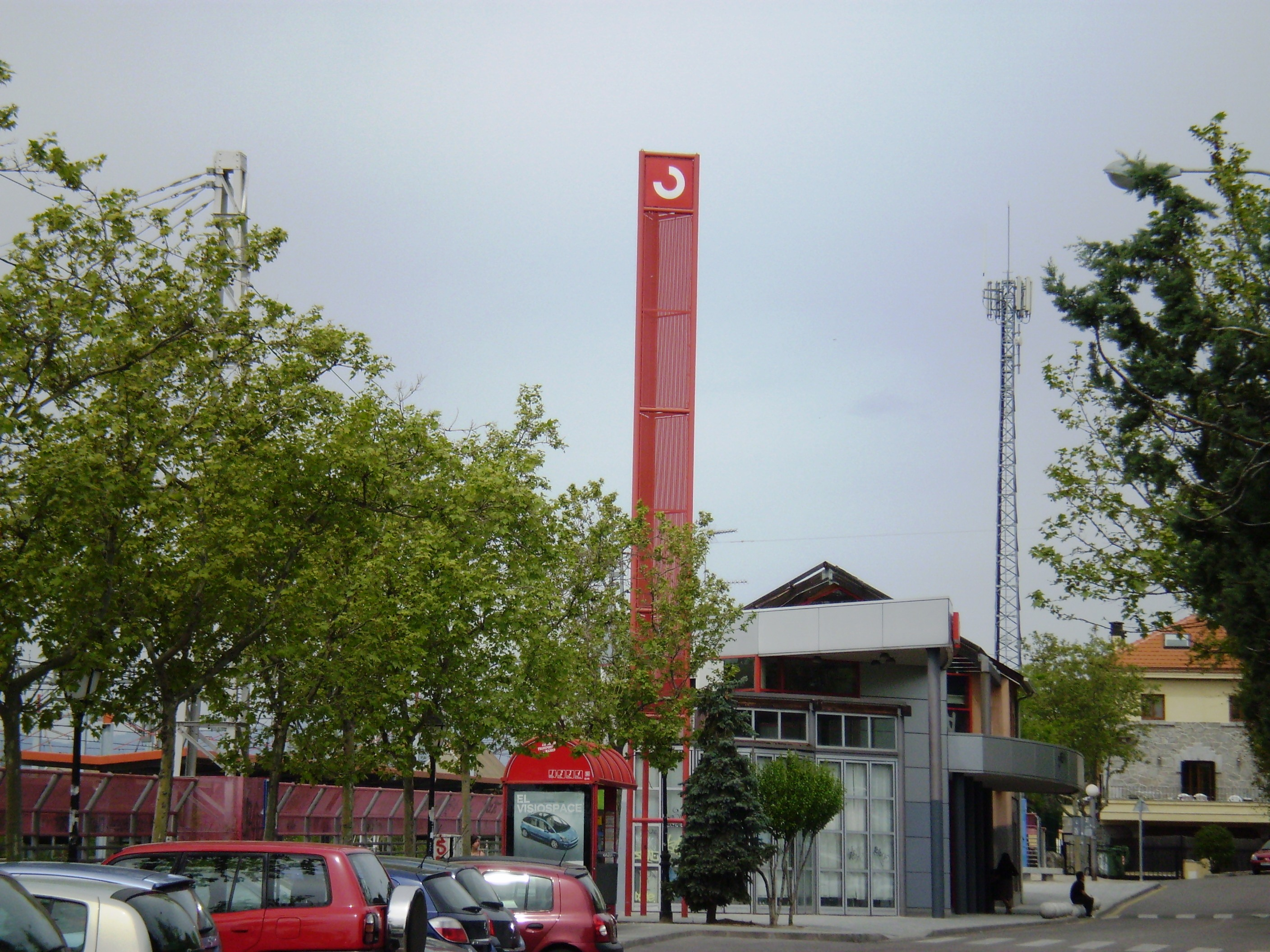 Train Station of Torrelodones, Community of Madrid, Spain